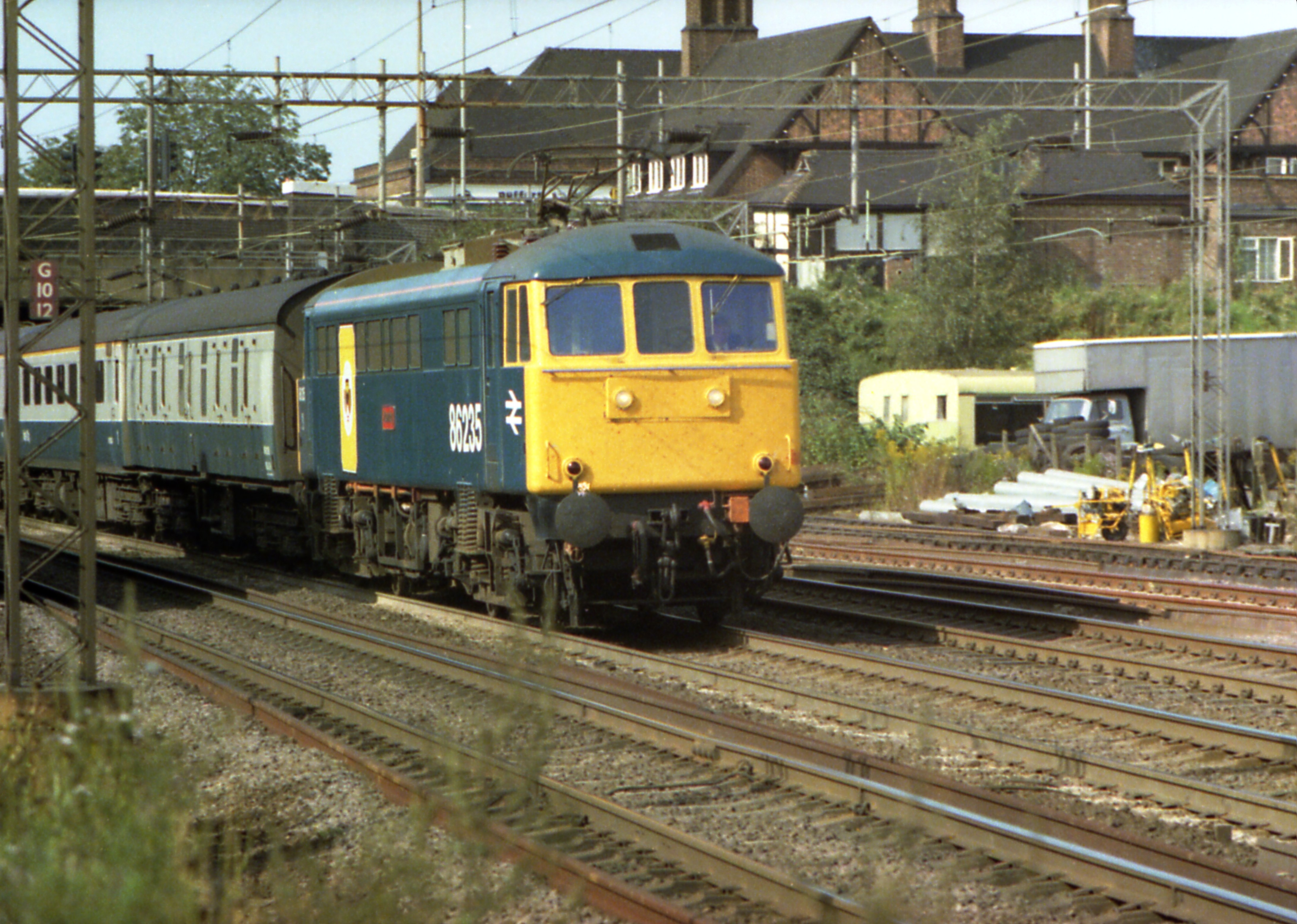 Class 86 electric locomotive No. 86235 "Novelty" passing Kenton station with an up express for Euston in the late 1970s. Camera: Olympus Pen F Half Frame SLR. Film: Fuji.